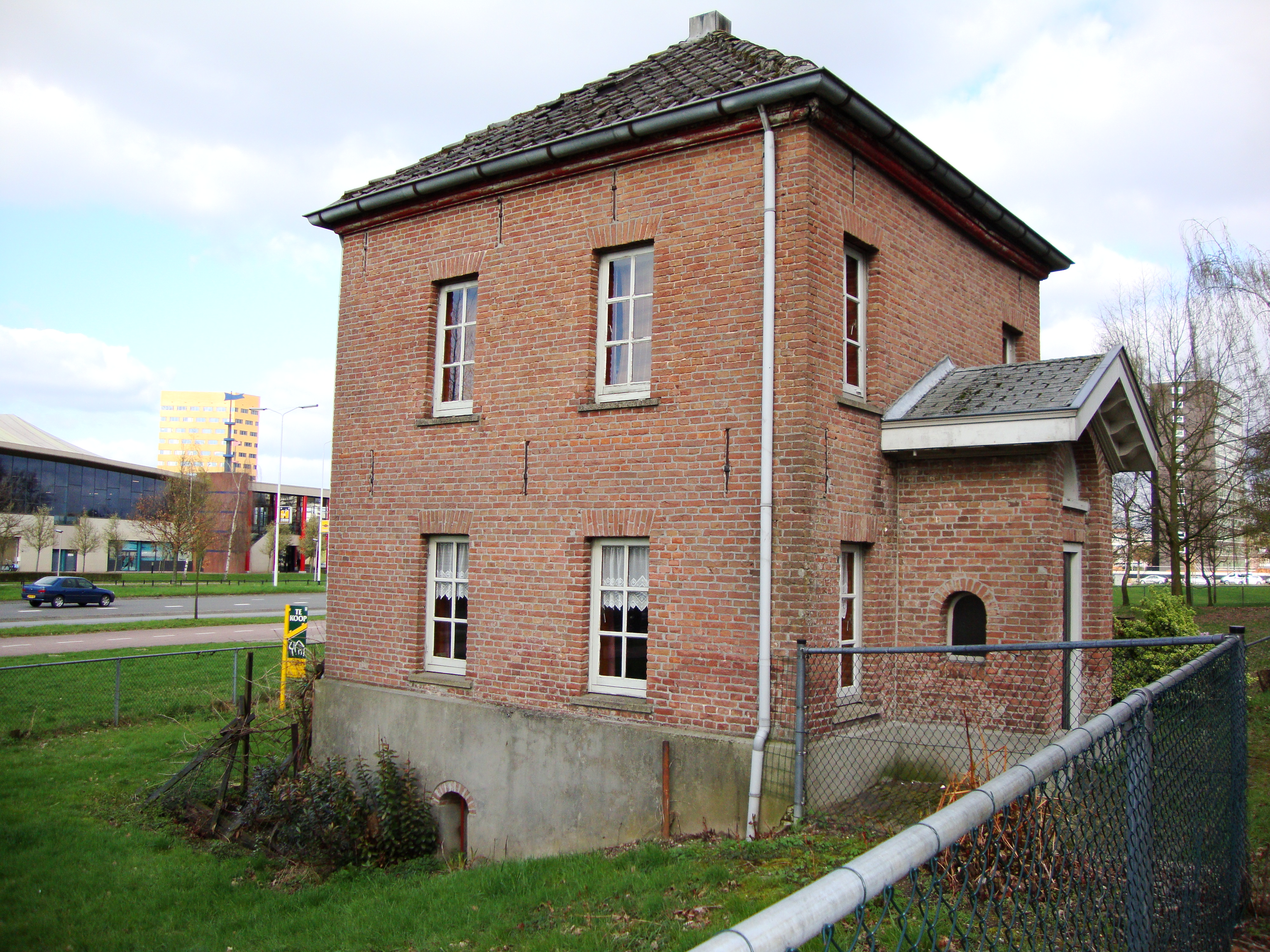 Nijmegen Dukenburg, Tolhuisje (Tollhouse) on the historical tollway Teersdijk. The neighbourhood Tolhuis got its name from it.